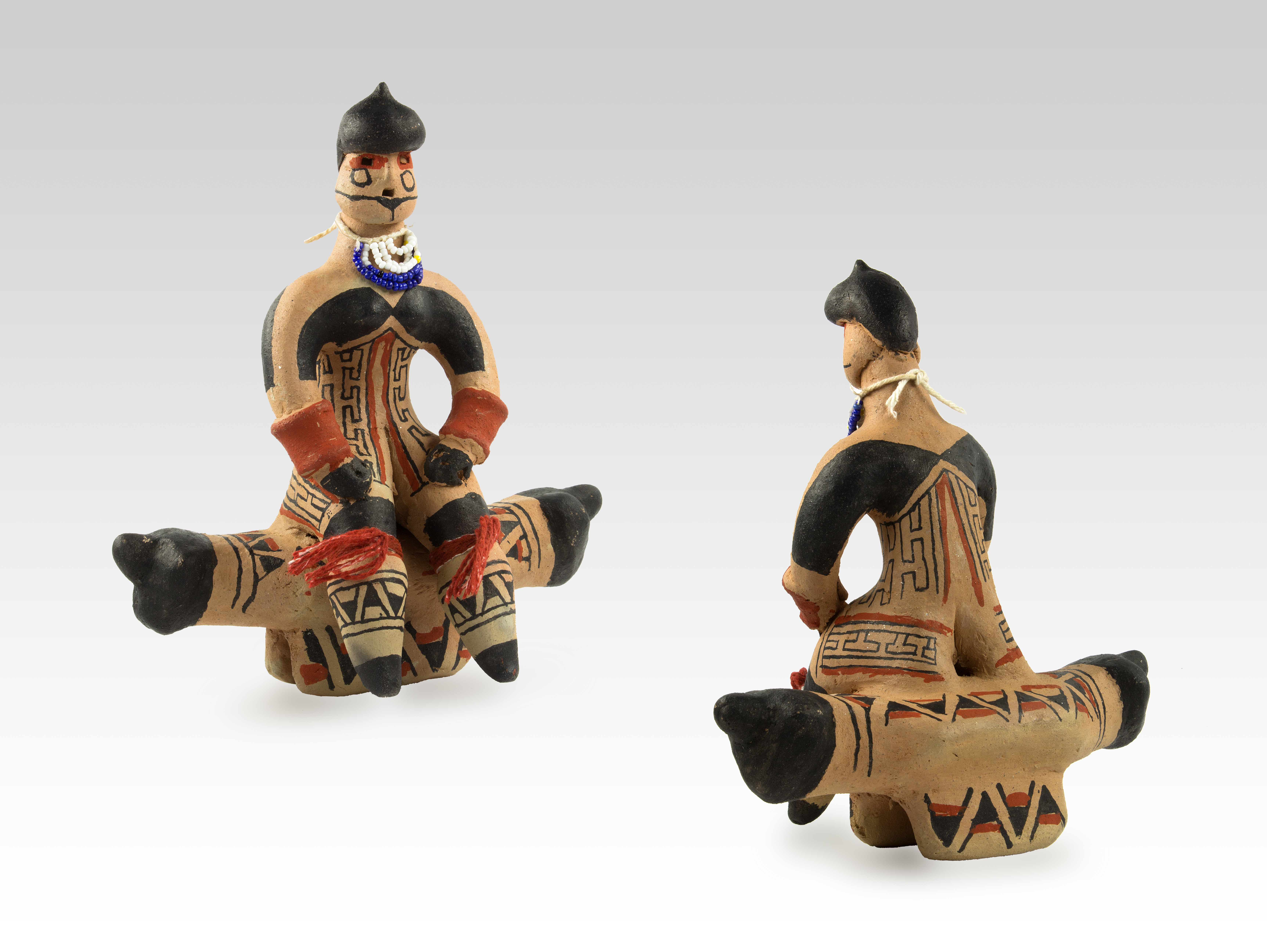 young initiate size : 18,0 x 16,8 x 10,0 cm material : clay technique : ceramic